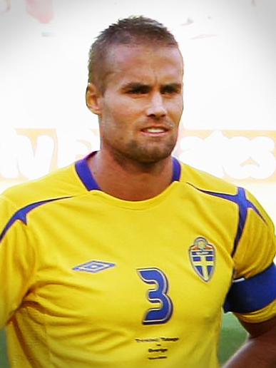 Olof Mellberg, Swedish footballer, during the 2006 World Cup. Cropped from team photo.